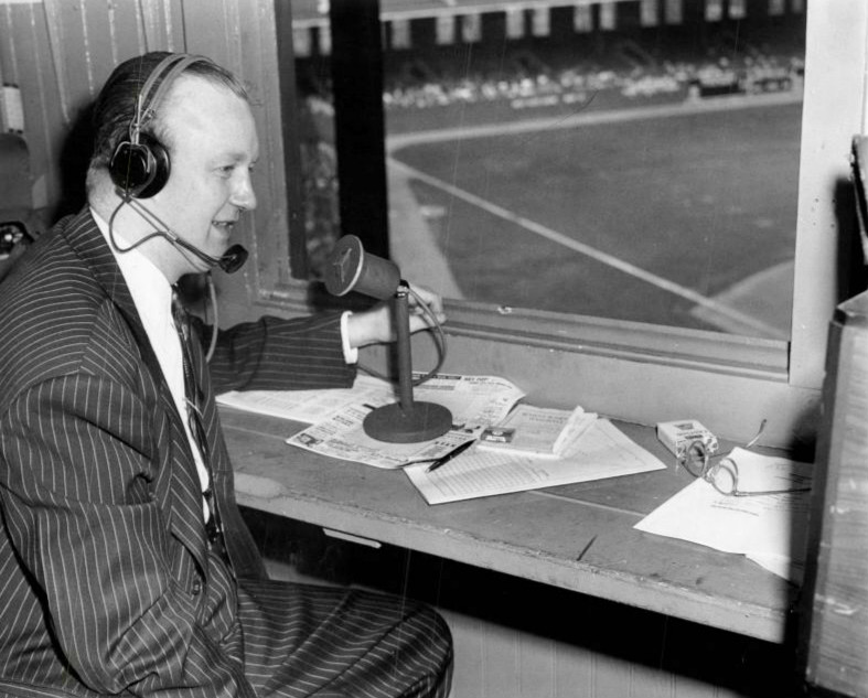 Photo of Jack Brickhouse in the Comiskey Park press box as he prepares to announce for a White Sox game in 1948.